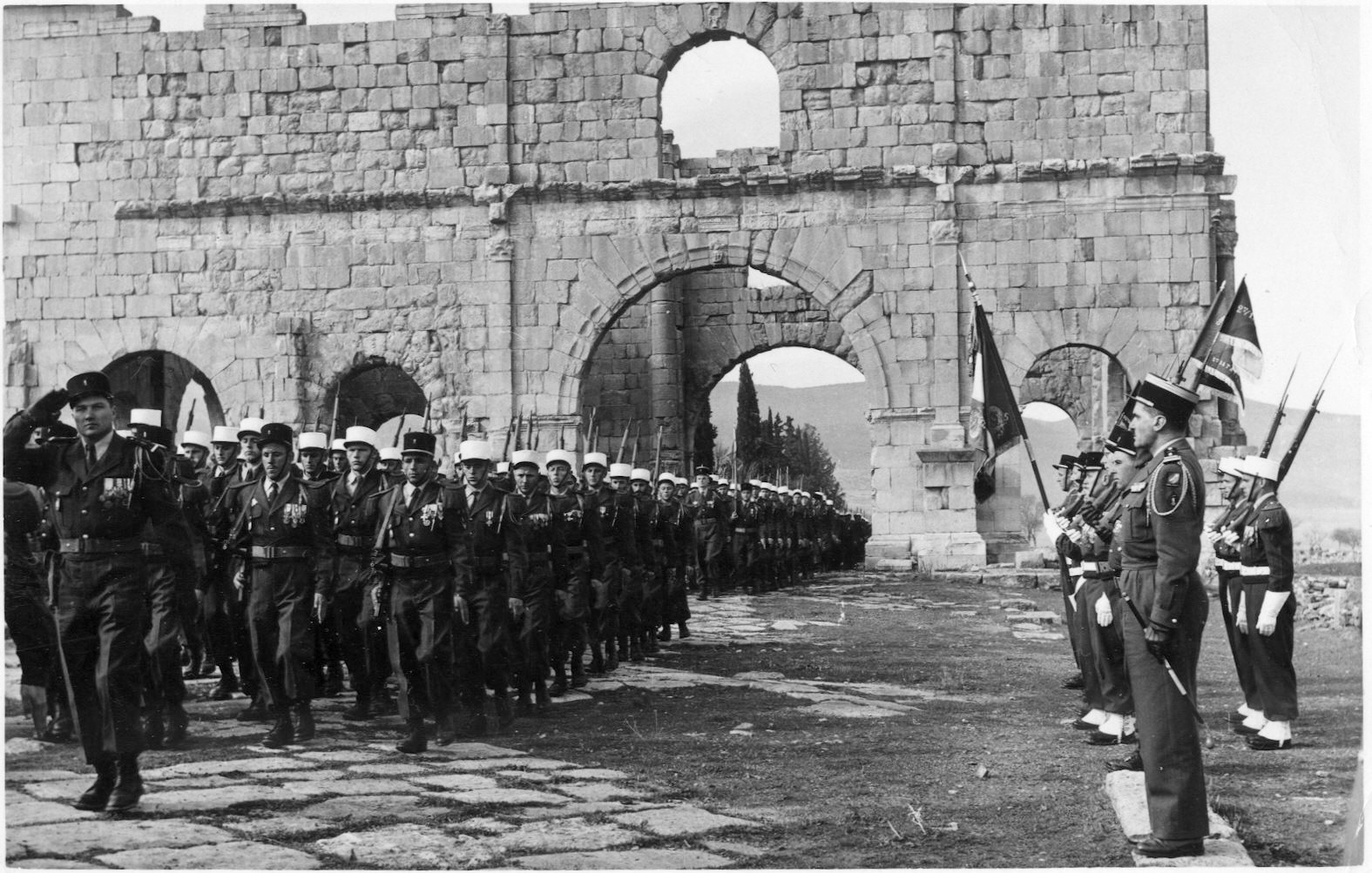 Parade of the 13th DBLE through Roman ruins in Lambaesis, Algeria; Legionnaires with 7.5mm MAS 36 rifles, officers and NCOs with 9mm MAT 49 submachine guns; the side arms are probably 9mm MAS Model 1950 automatic pistols